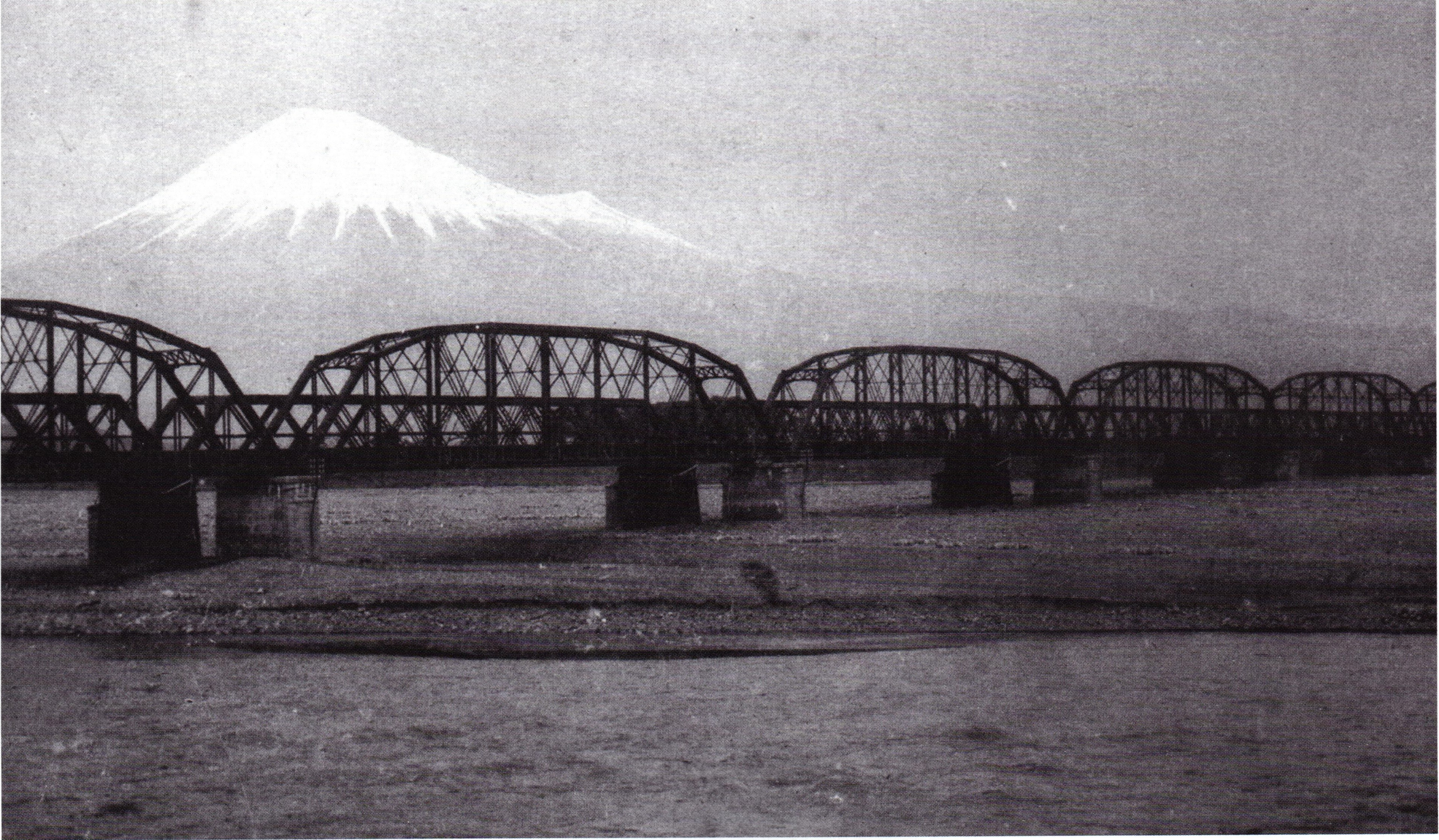 Fujikawa railway bridge on Tokaido mainline after double tracking. For a bridge carrying westbound track, Schwedler truss made in US was applied.